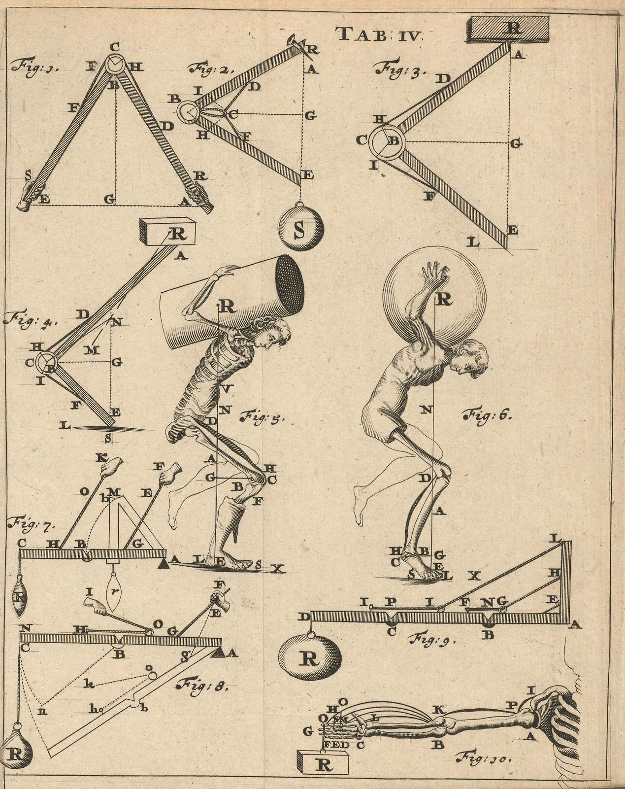 Illustration from De motu animalium, 1685, by Giovanni Alfonso Borrelli (1608-1679). *IC6 B6447 680db, Houghton Library, Harvard University